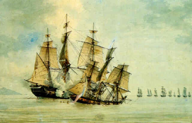 Battle between the French corvette Décius and the frigate HMS Lapwing